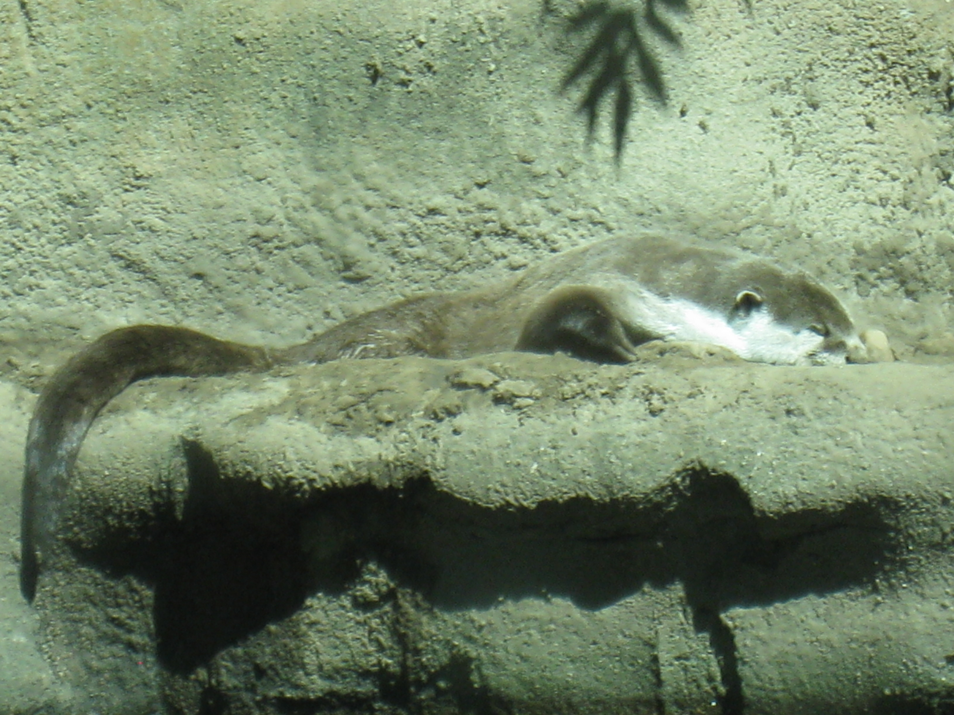 Cape clawless otter at the Toledo Zoo, in Ohio state, United States